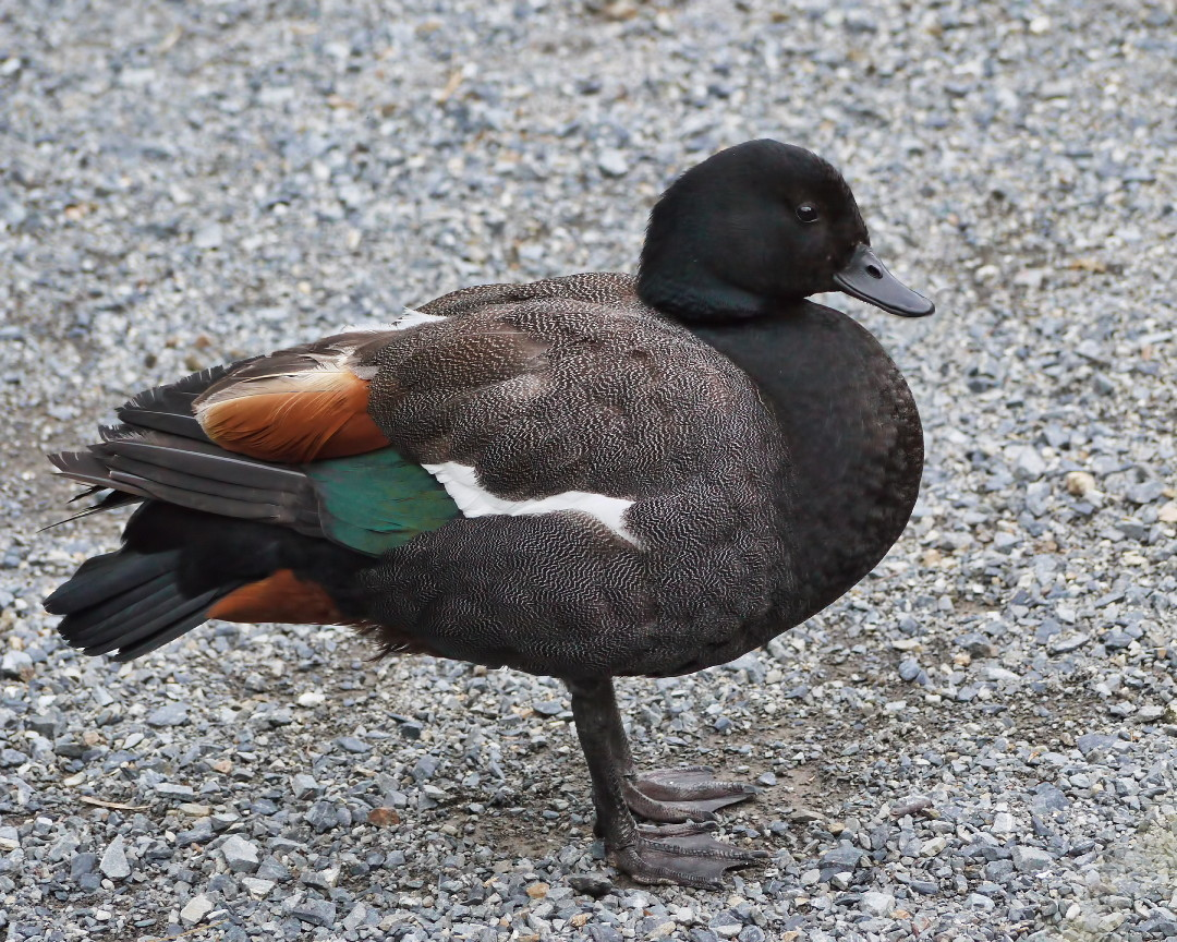 A male Paradise Shelduck in New Zealand.